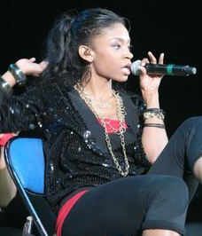 Wanita performs at the Tacoma Dome for Jingle Bell Bash 9